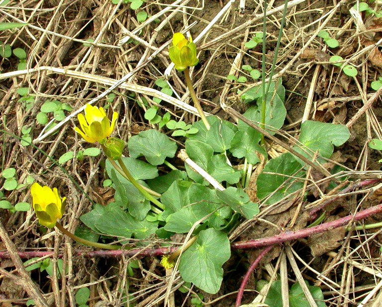 Flowering Ficaria calthifolia near Vlčnov, Czech republic